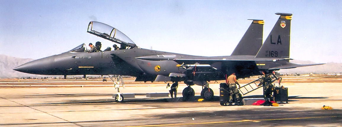 461st Fighter Squadron - McDonnell Douglas F-15E-43-MC Strike Eagle 87-0169